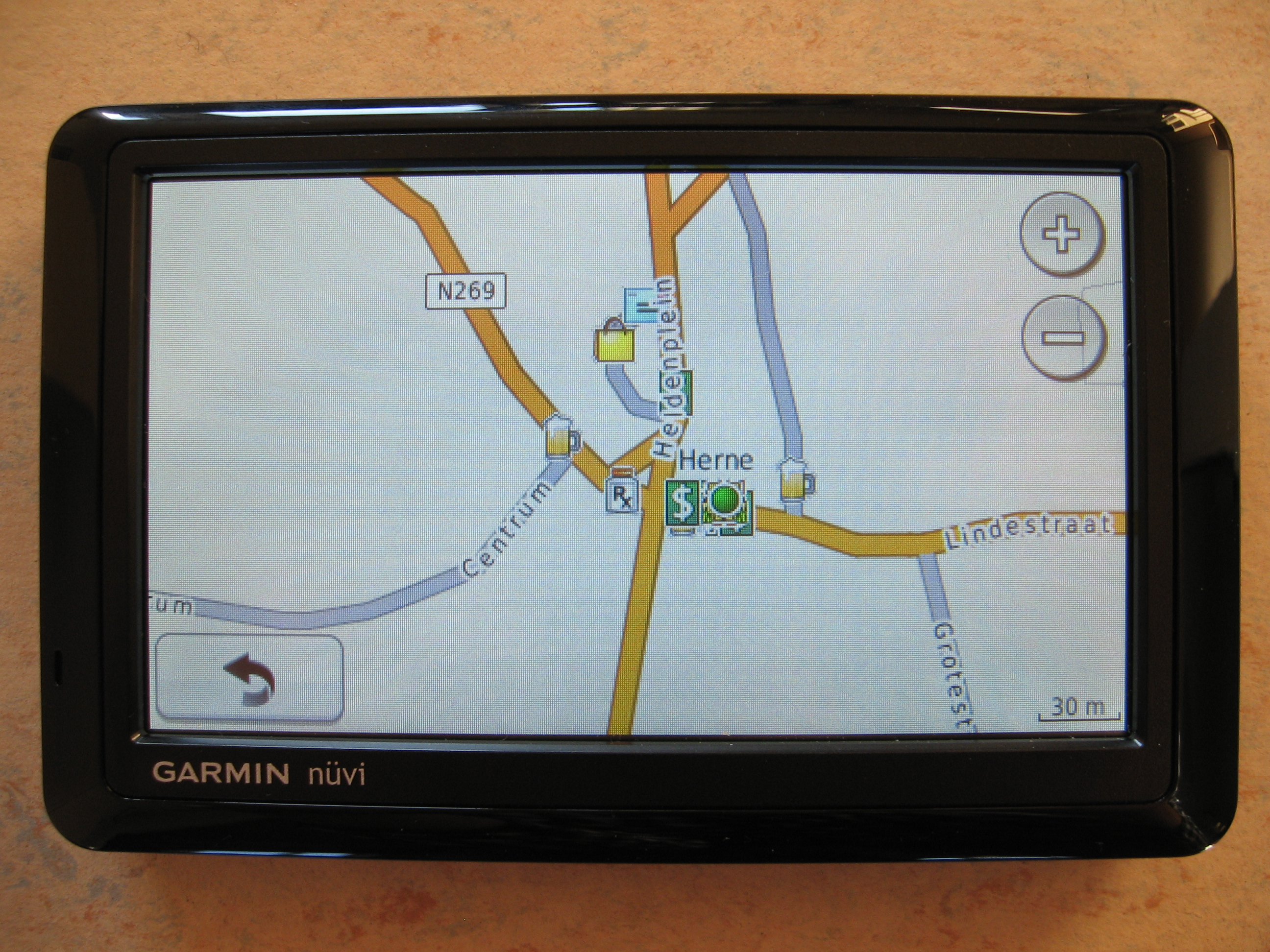 Garmin nüvi 1490T street navigator